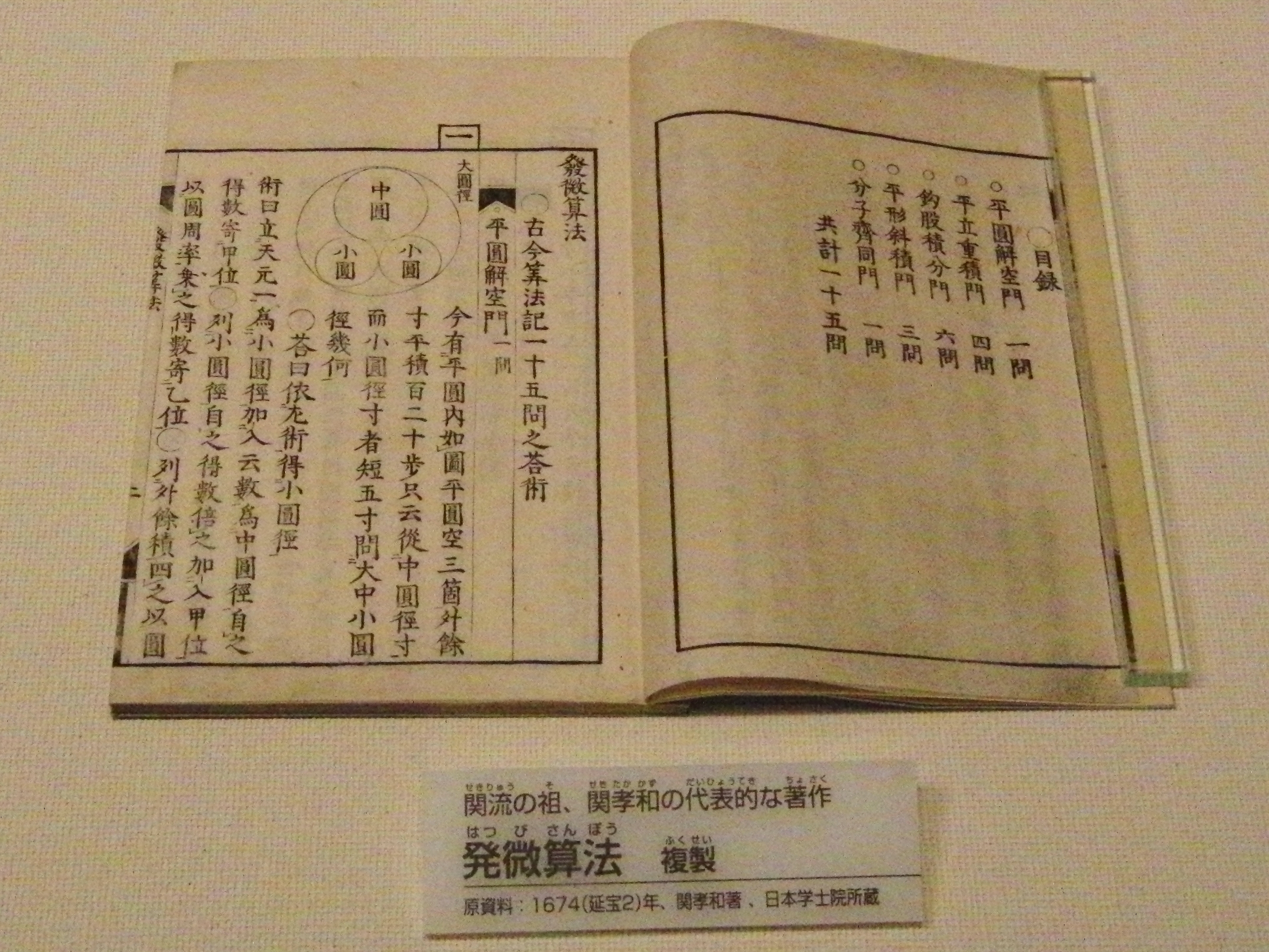 Replica of "Hatsubi Sanpou", book of calculation method written by Seki Takakazu published in 1674. Exhibit in the National Museum of Nature and Science, Tokyo, Japan.